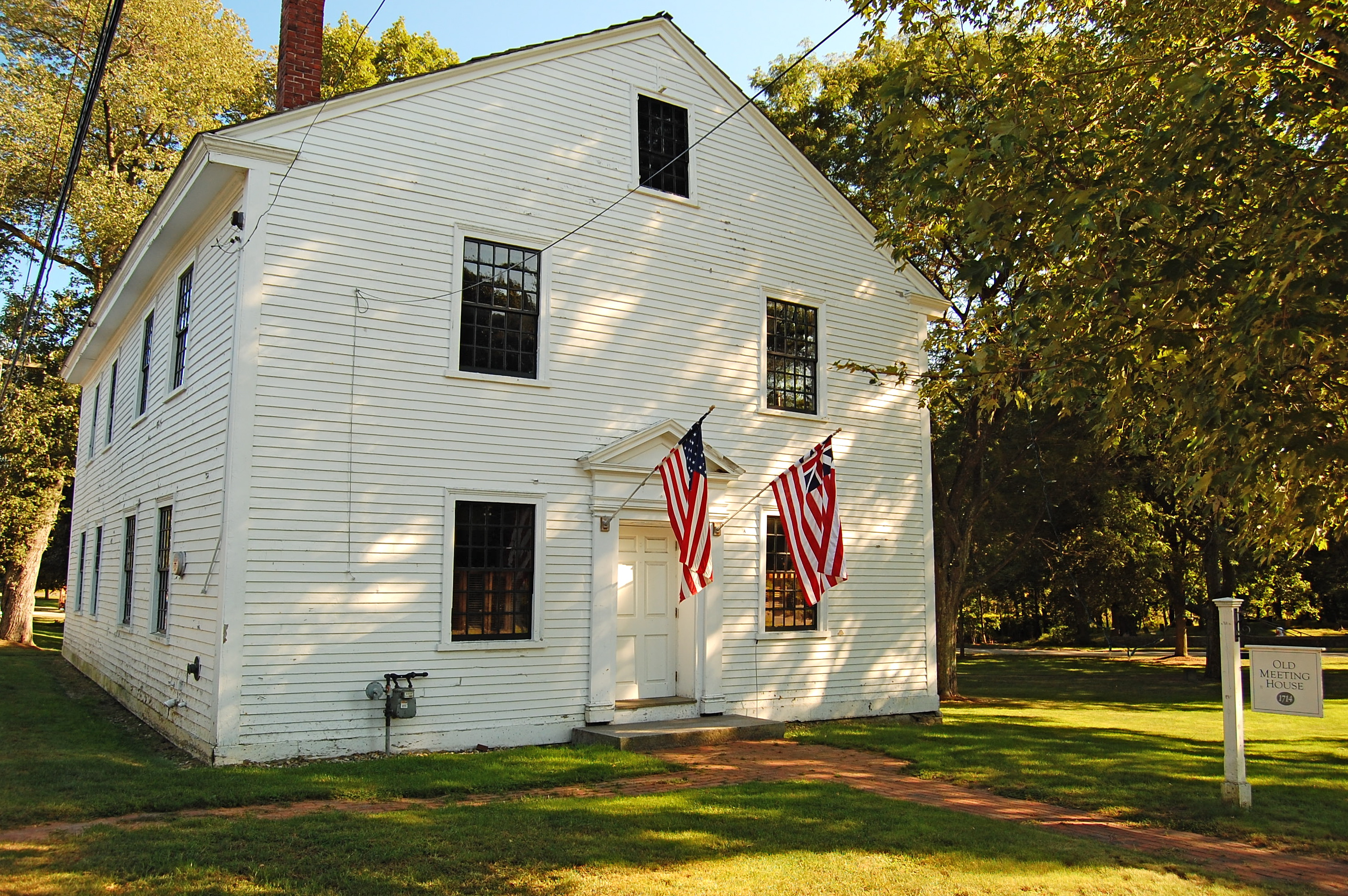 A meeting hall in central Lynnfield, Massachusetts, est. 1714.